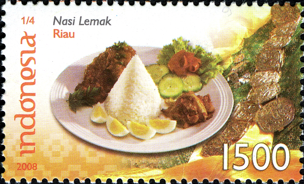 Stamps of Indonesia